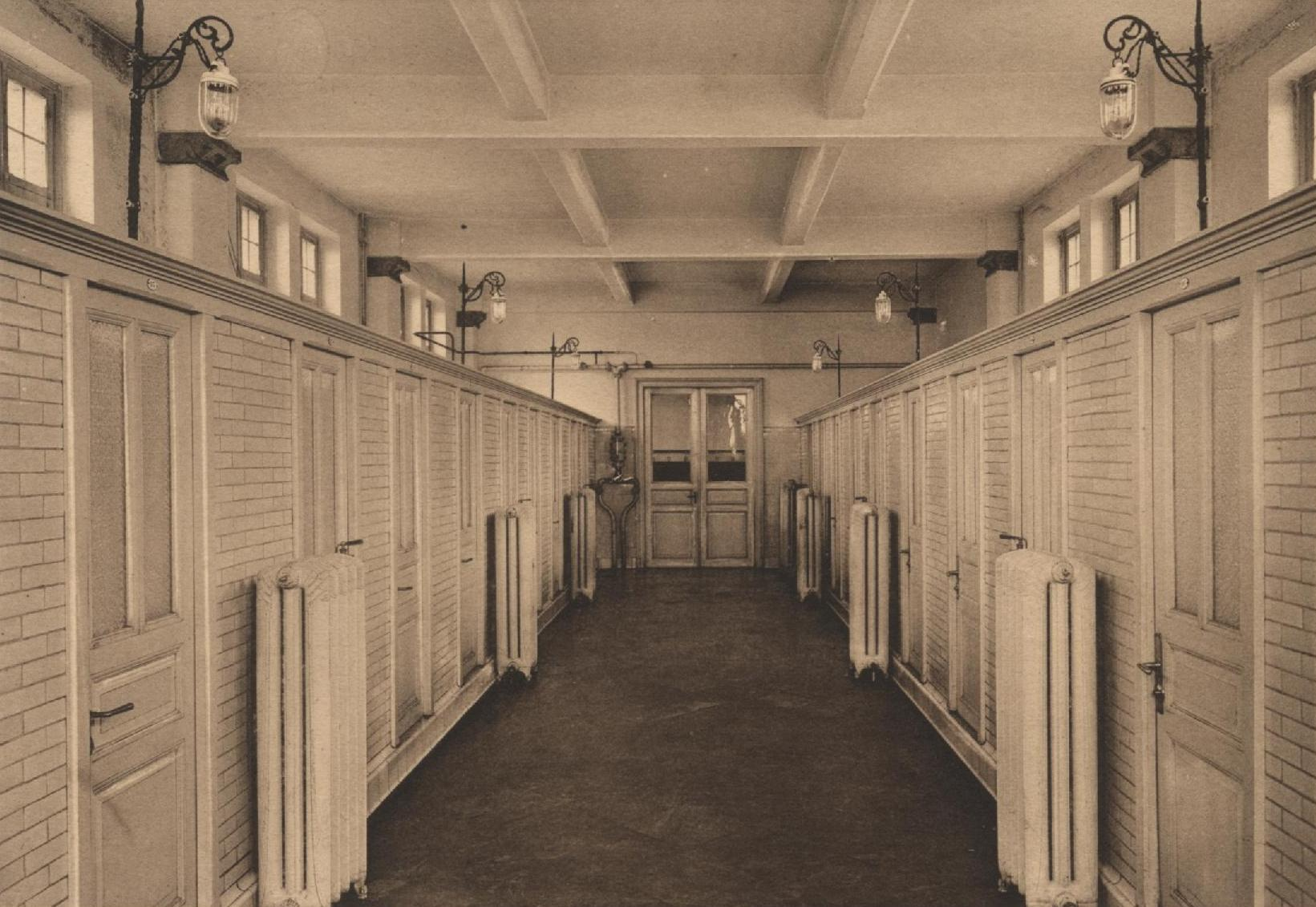 Bonne-Espérance Abbey, Vellereille-les-Brayeux (Belgium), the bathroom of the Minor Seminary (1870).